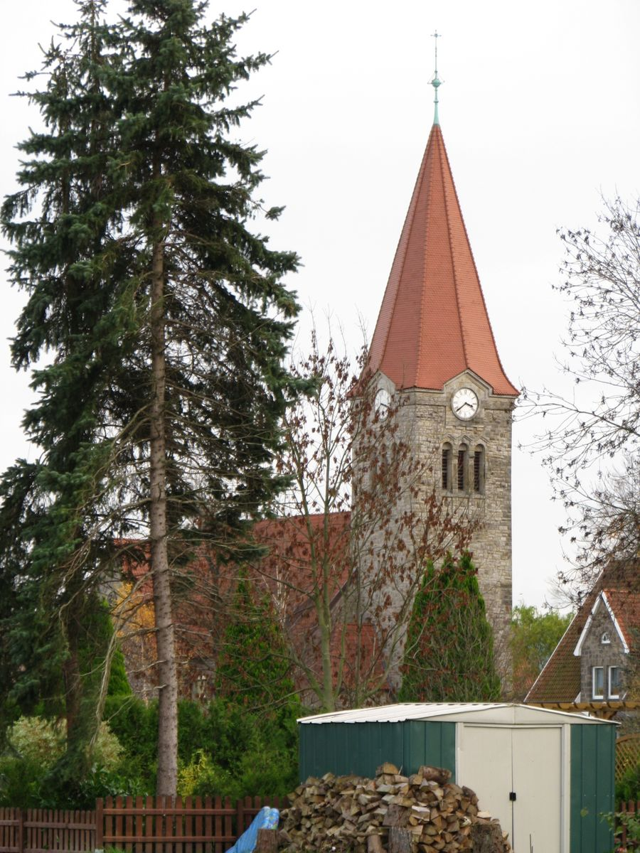 Church from Seggebruch in Germany